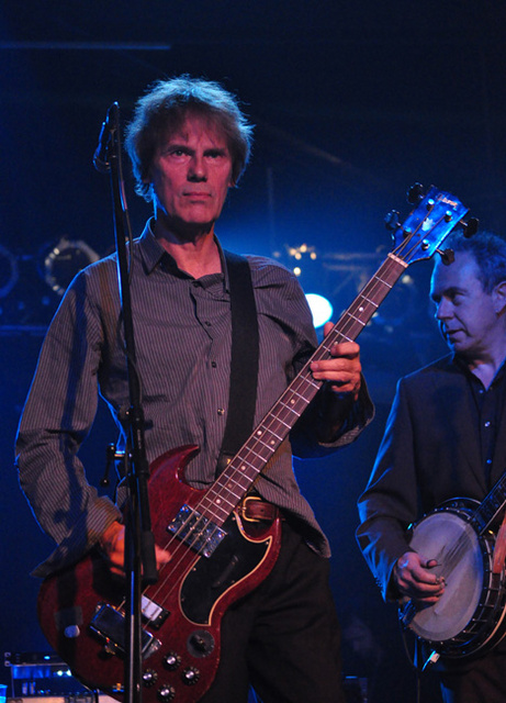 Darryl Hunt, Milk club, Moskau, 29.08.2010